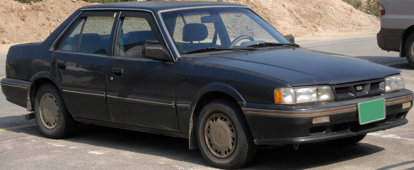 Kia Capital